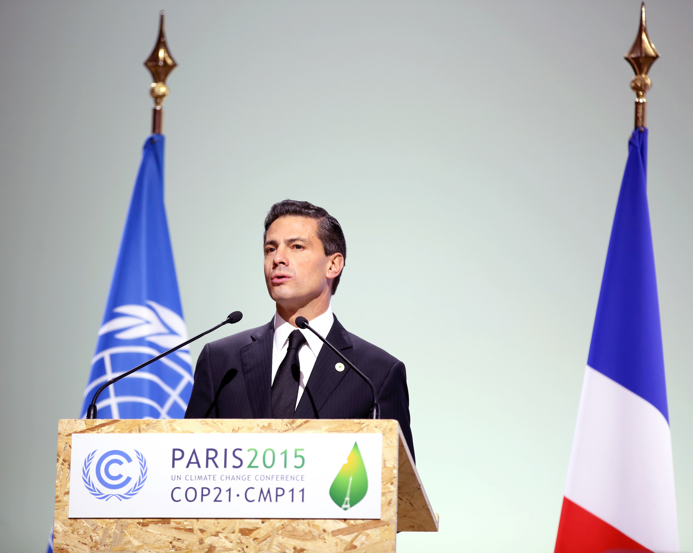 Conferencia de la ONU sobre Cambio Climático COP21